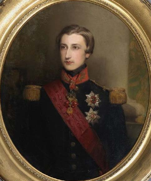 Portrait of Leopold of Belgium, Duke of Brabant (1835-1909)